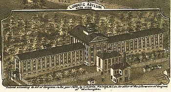 Portion of the map of Raleigh showing the Dorethea Dix Hospital